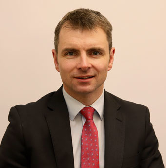 Irish politician Ruairí Ó Murchú of SInn Féin, taken in 2020.